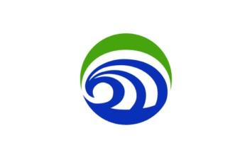 Flag of Omitama Ibaraki